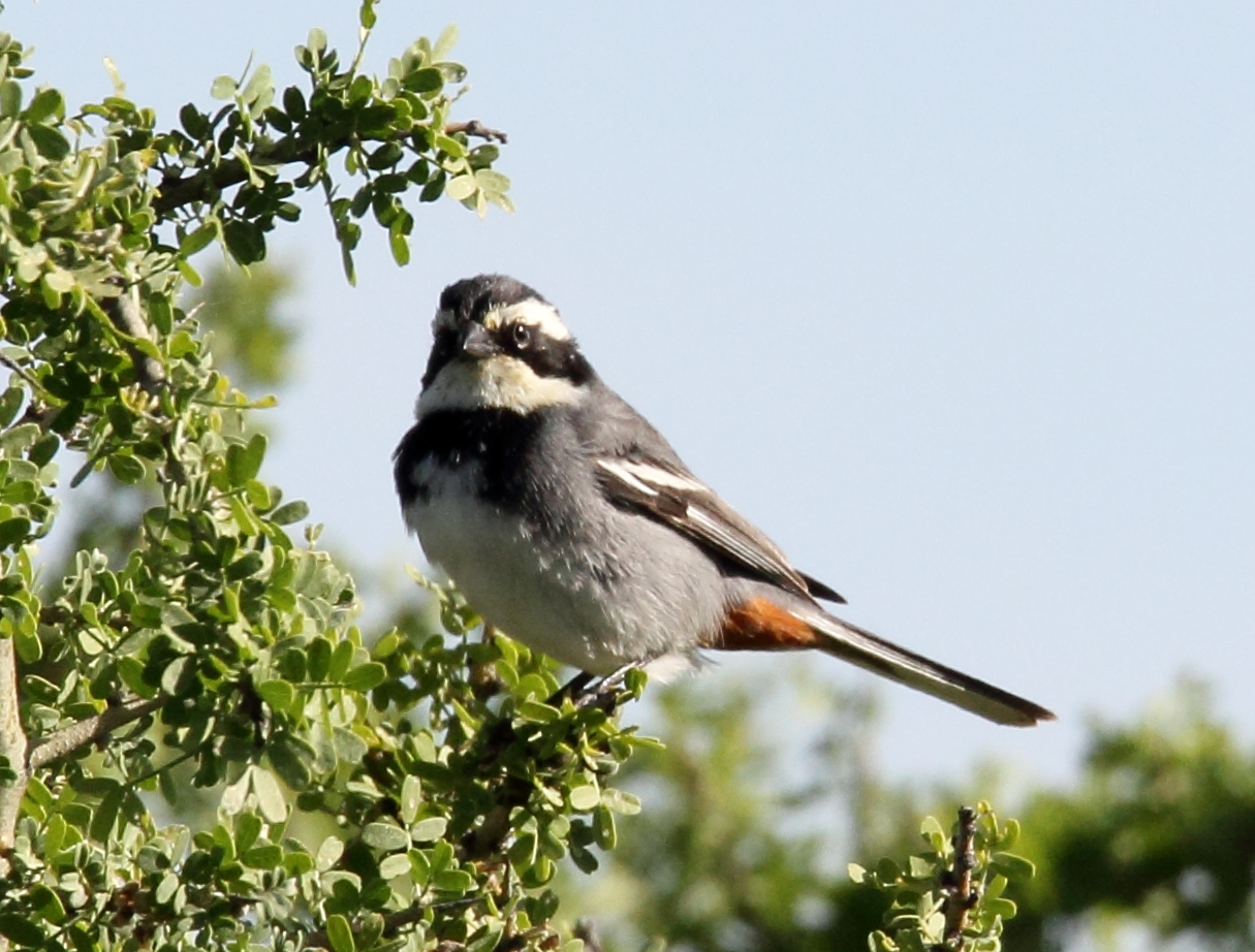 Ringed Warbling-Finch (Poospiza torquata)